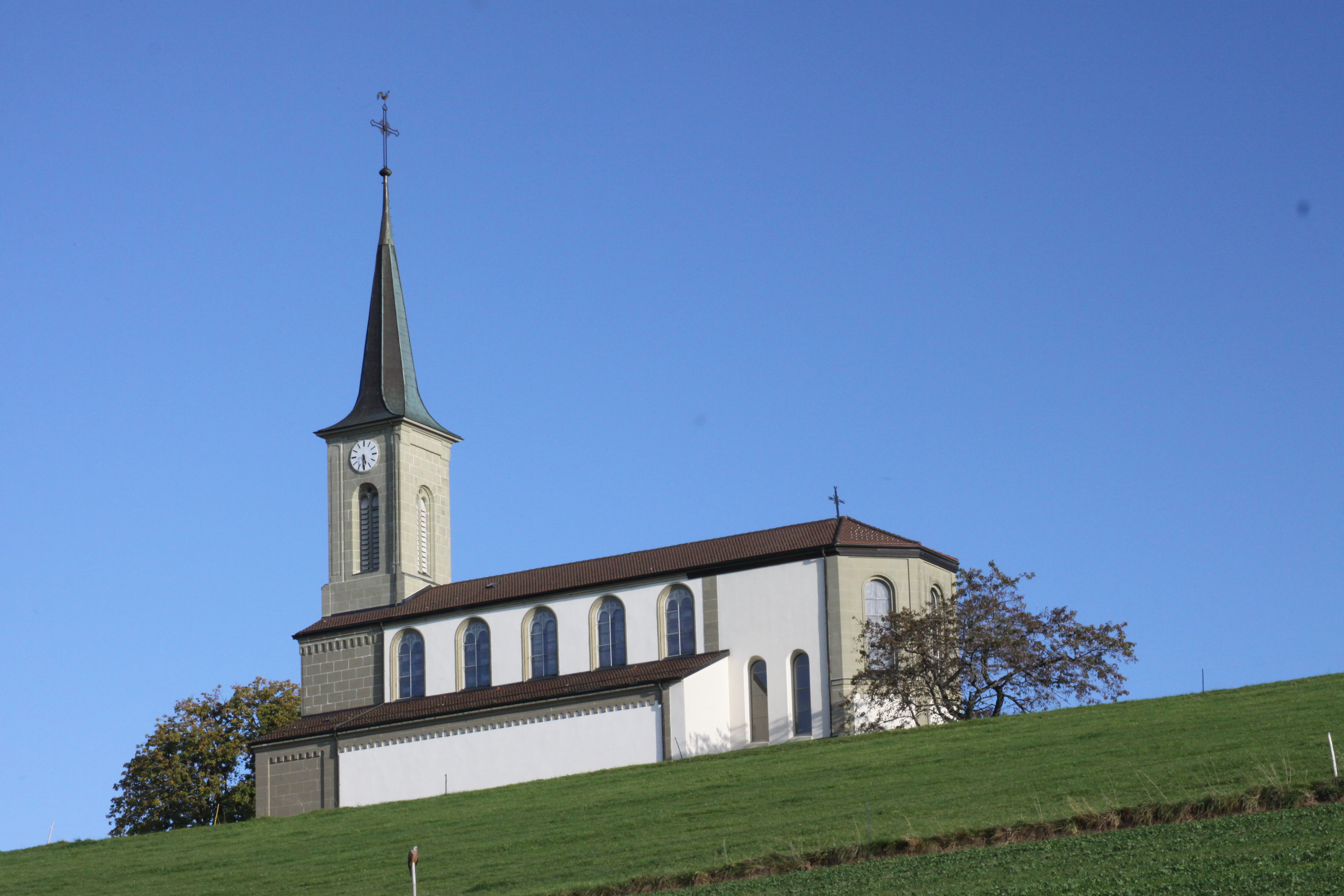 Church of St. Maurice, Sur la Vellaz 84, Massonnens